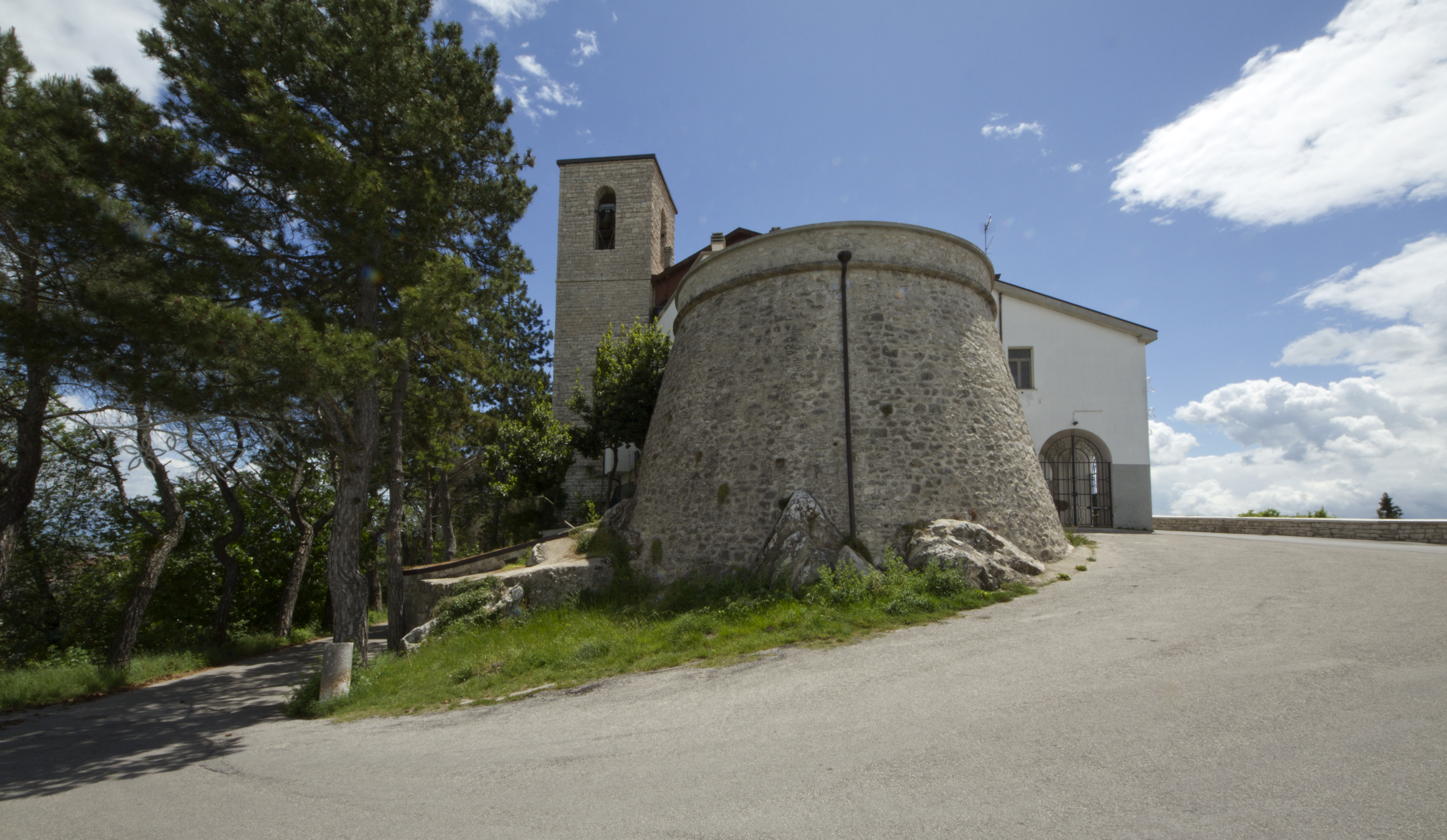 Old Town, 86100 Campobasso, Italy